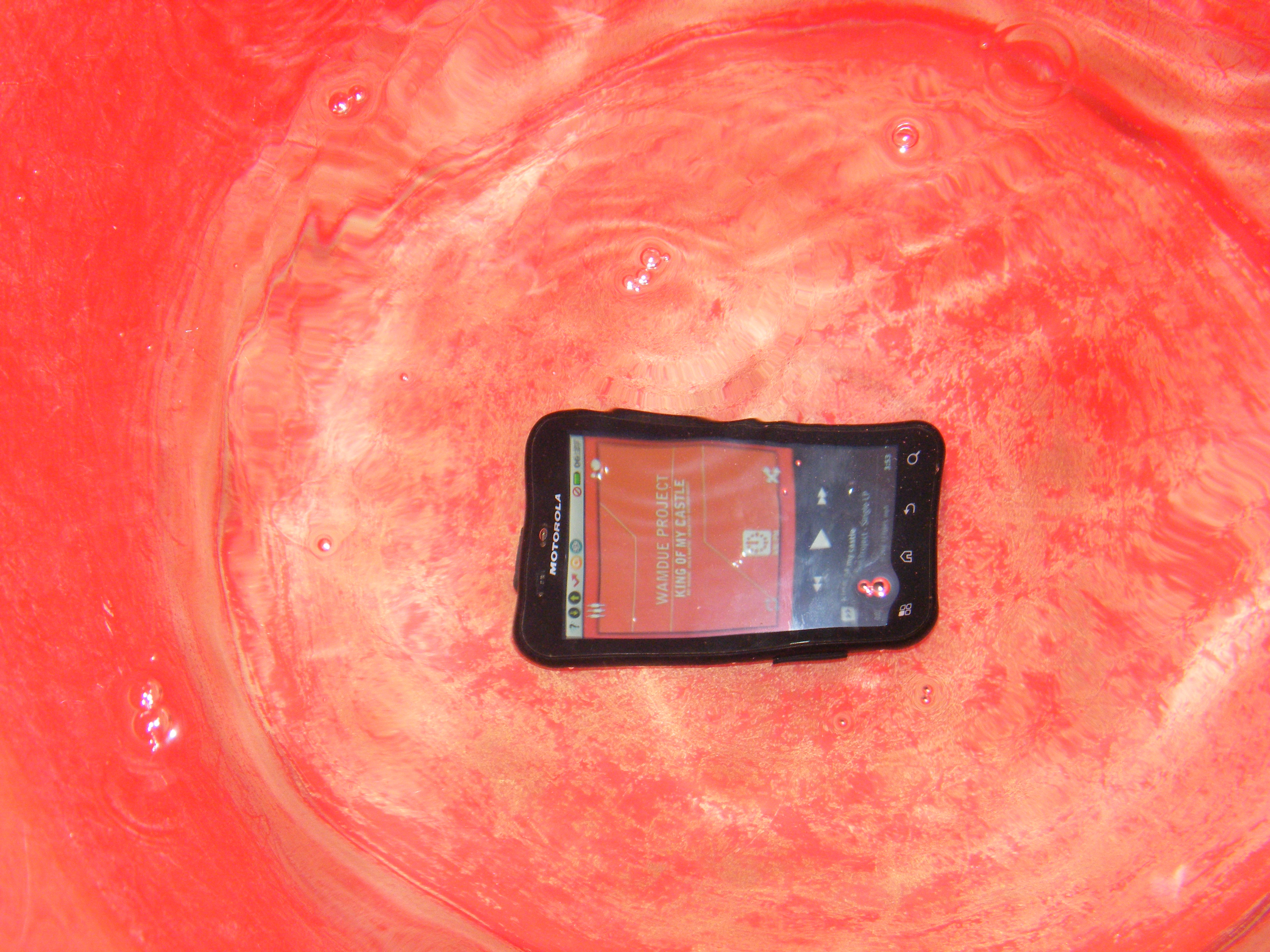 Motorola Defy is rated as IP67. This photo shows a Motorola Defy submerged and still On and functioning, thus demonstrating its water resistant properties.